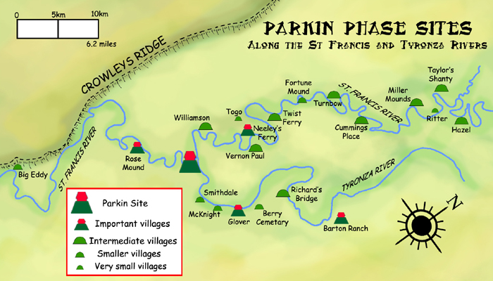 A map showing the Parkin Phase sites along the St. Francis and Tyronza Rivers.